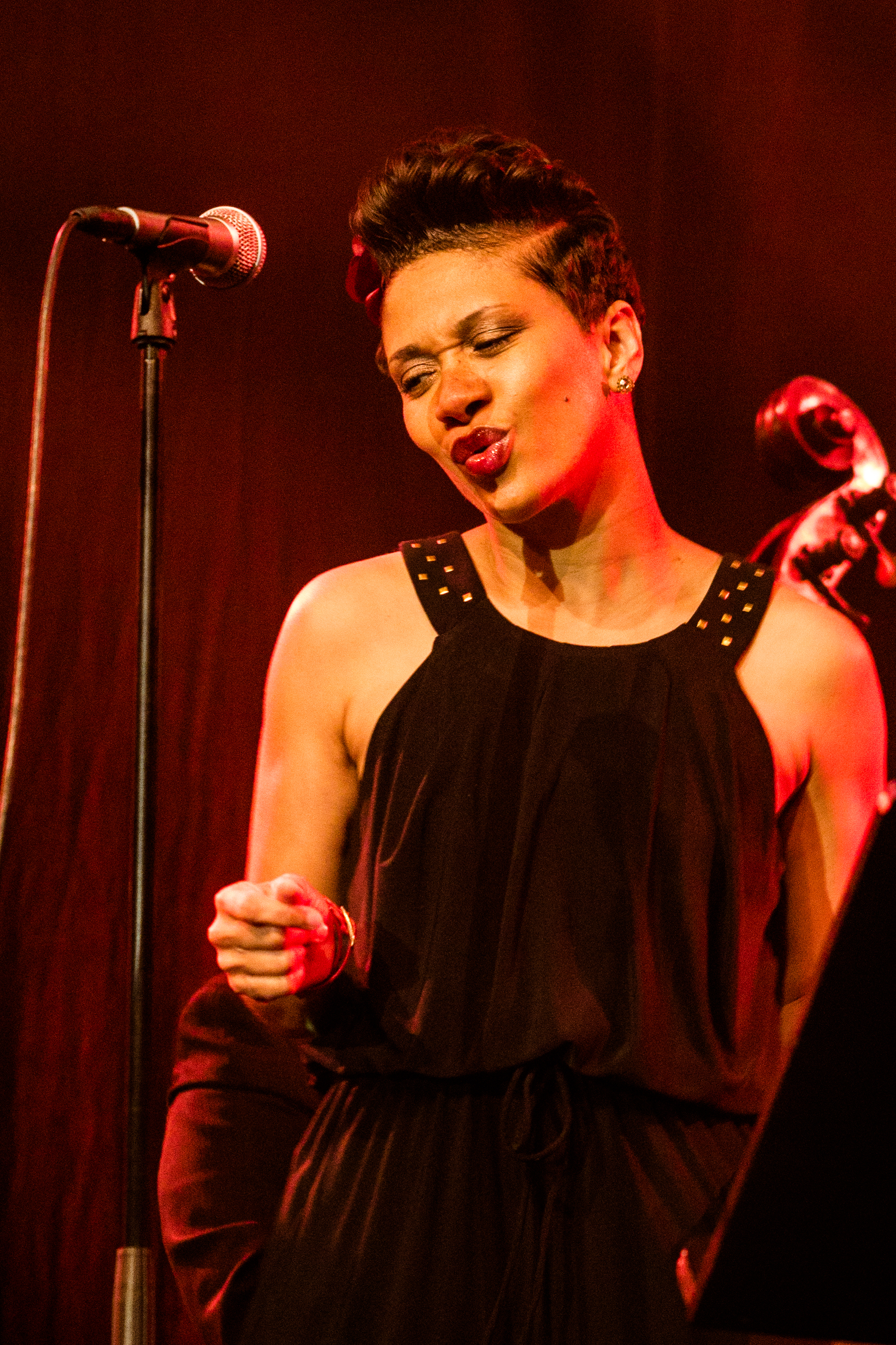 US-american jazz singer Jean Baylor at the Moers Festival 2015